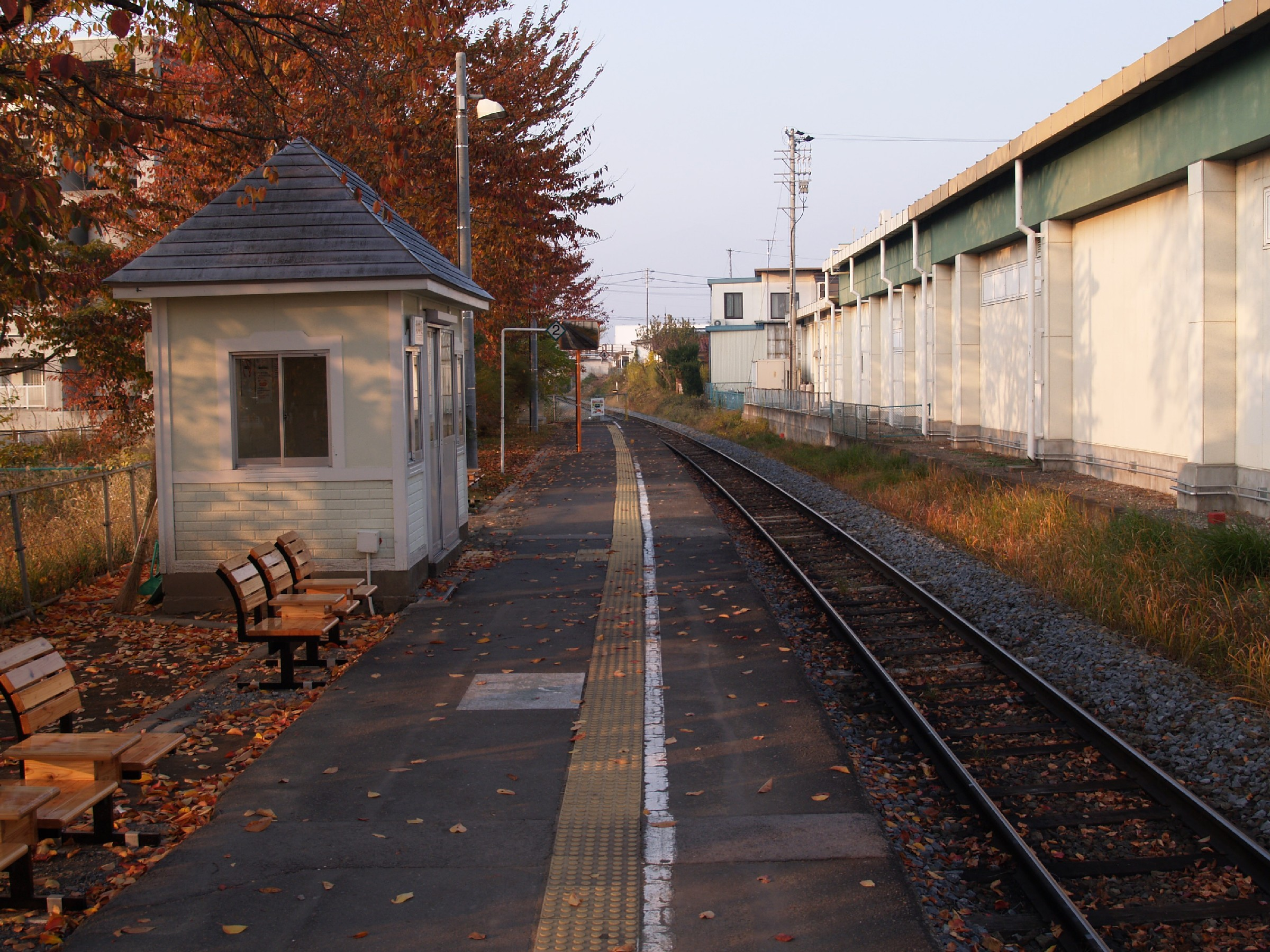 Kita-Nakagomi Station platform